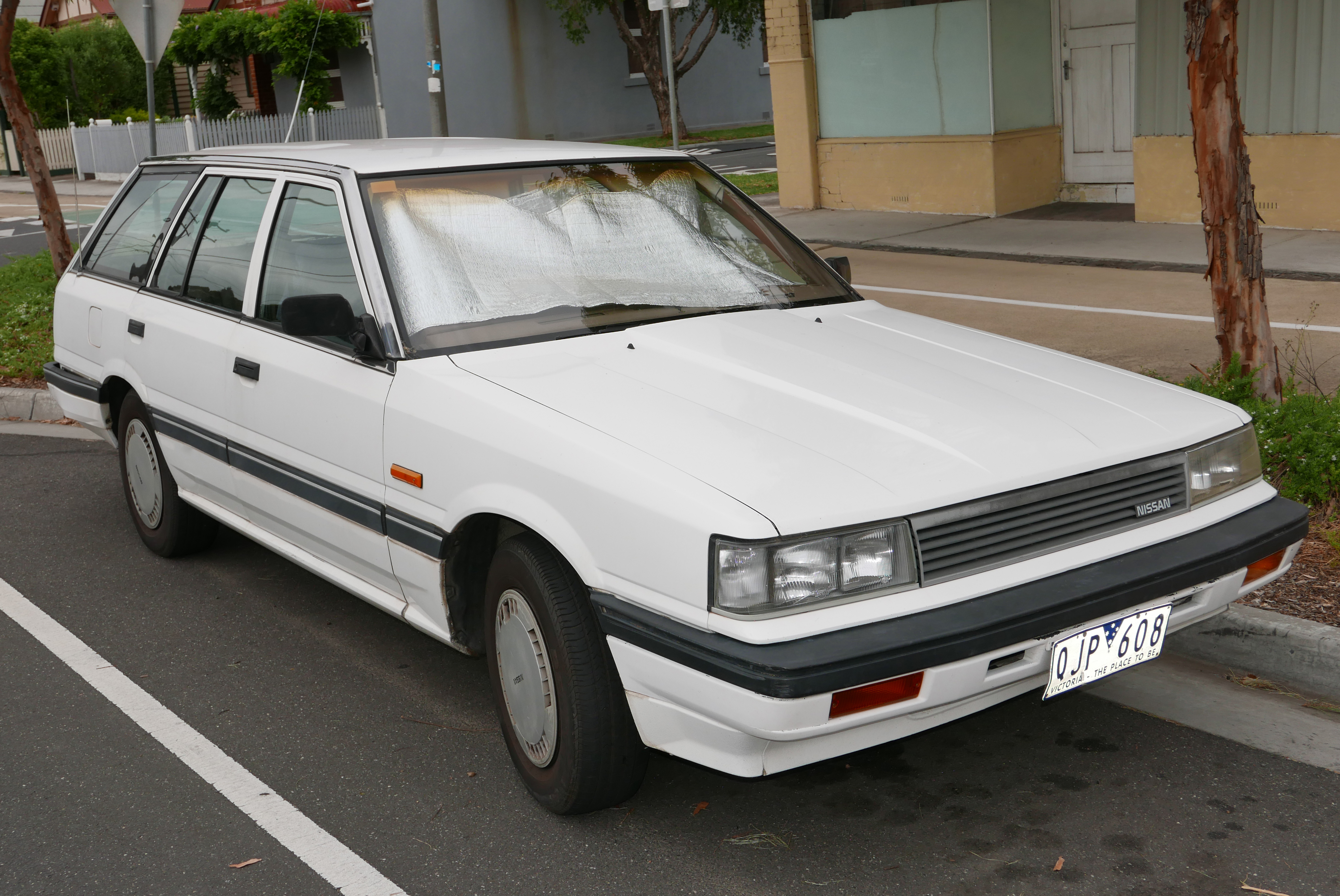 1987 Nissan Pintara (R31 S2) GLi station wagon. The hubcaps are from the GX trim level. Photographed in Coburg, Victoria, Australia. Vehicle registration enquiry results Jurisdiction Victoria Registration QJP608 Chassis code WPJR31W04200 Engine code CA20215030A Compliance date 1987-07 Year of manufacture 1987